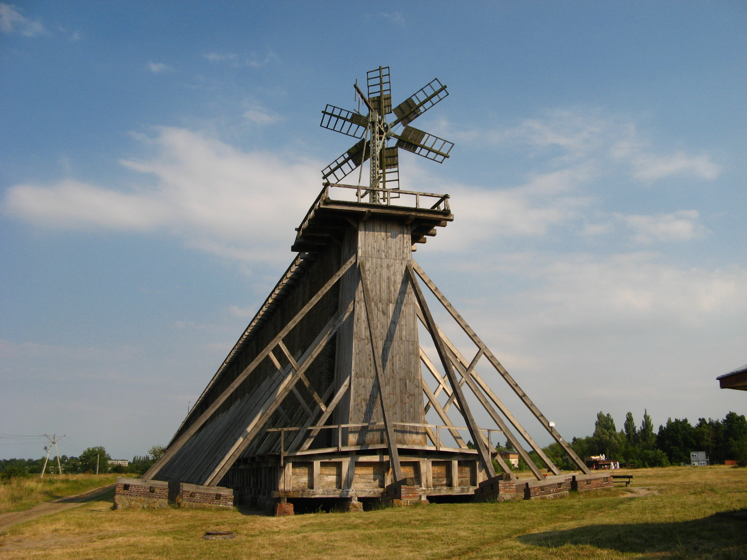 Graduate tower in Ciechocinek, Poland